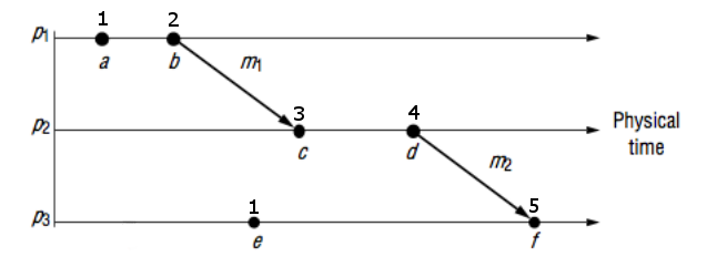 Ejemplo relojes lógicos.